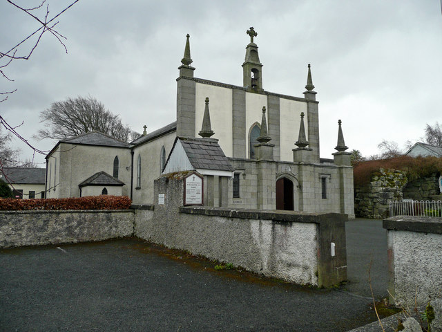 St. Joseph's church, Valleymount, near to Ballyknockan, Valleymount and Lugnaskeagh, Wicklow, Ireland. The village is situated on a narrow peninsula in Pollaphuca Reservoir. This church dates back to 1803.